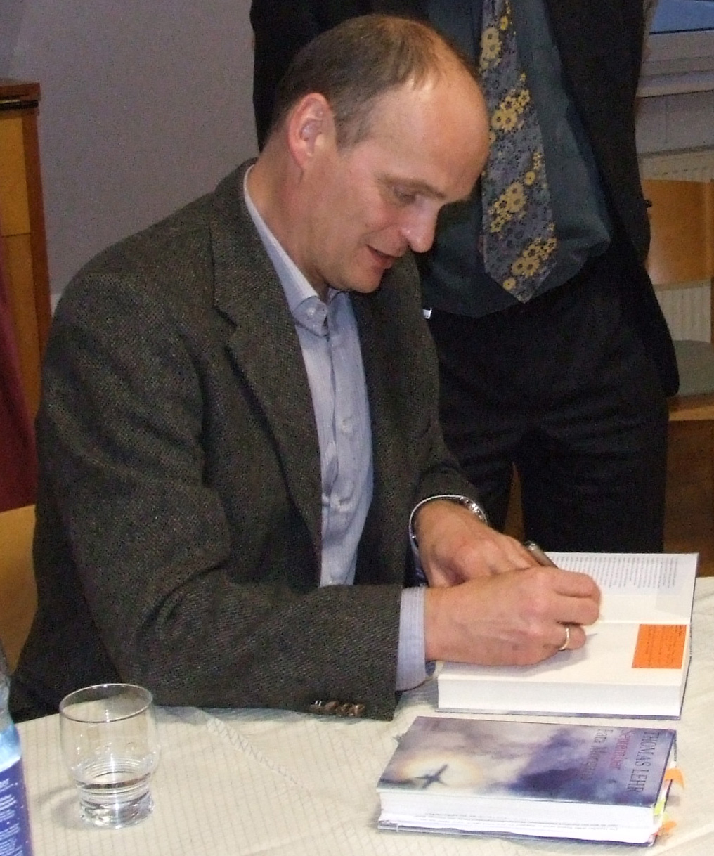 German writer Thomas Lehr, 2010 in Speyer